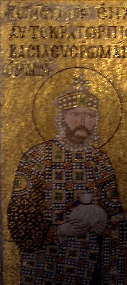 Hagia Sophia ; Empress Zoë mosaic : Emperor Constantine IX Monomachos; Istanbul, Turkey